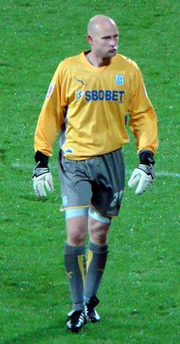 Photo of footballer Peter Enckelman